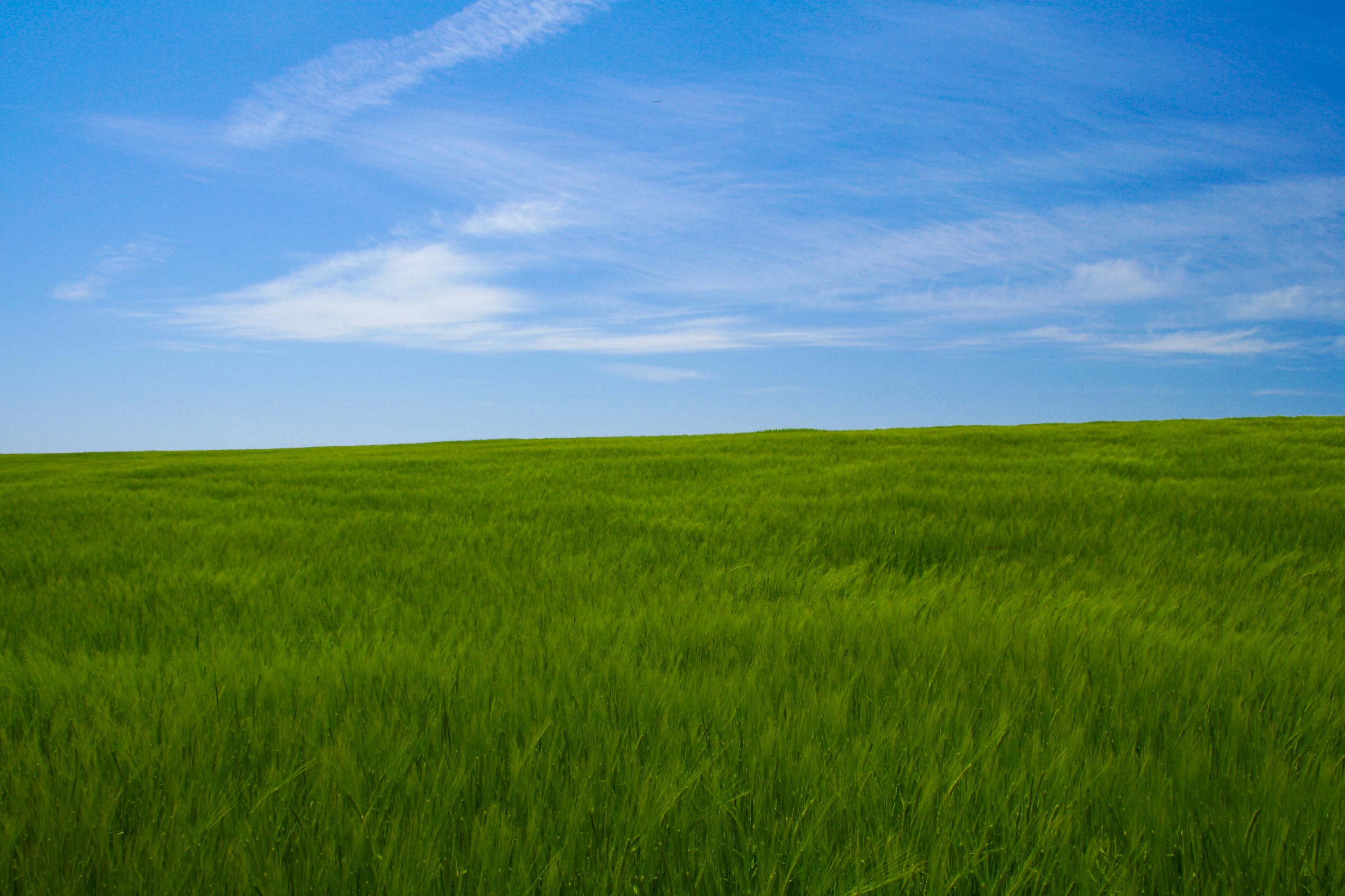 Barley under a blue sky.